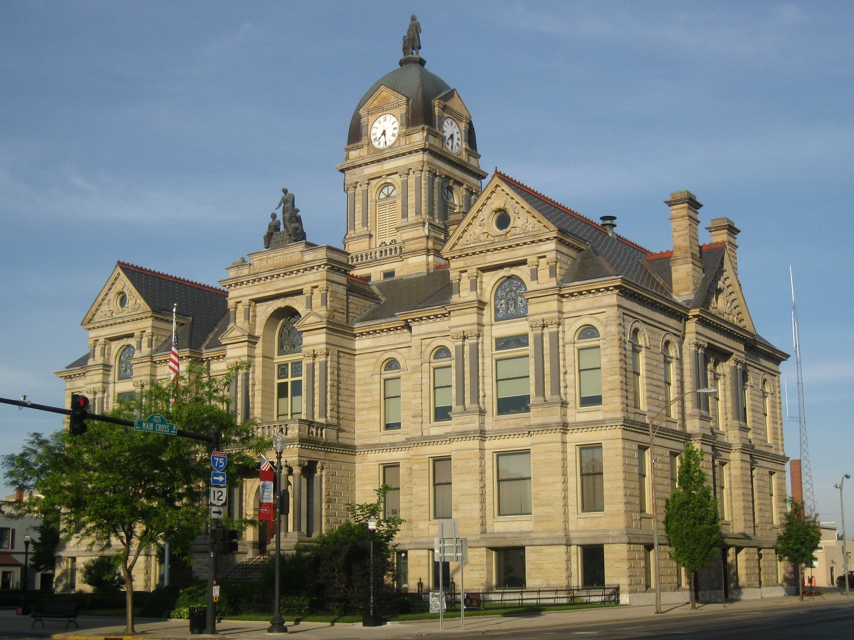 Front of the Hancock County Courthouse, located at the intersection of Main and Main Cross Streets in downtown Findlay, Ohio, United States. Built 1886-1888, the courthouse is listed on the National Register of Historic Places.